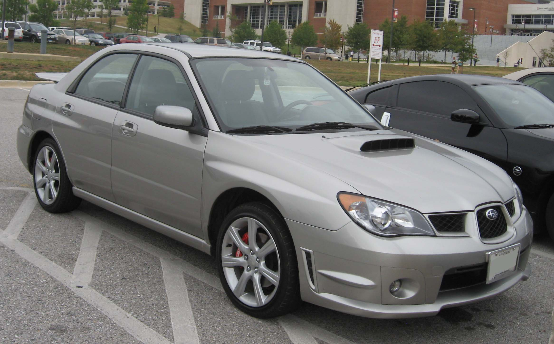 2006-2007 Subaru Impreza WRX photographed in College Park, Maryland, USA.